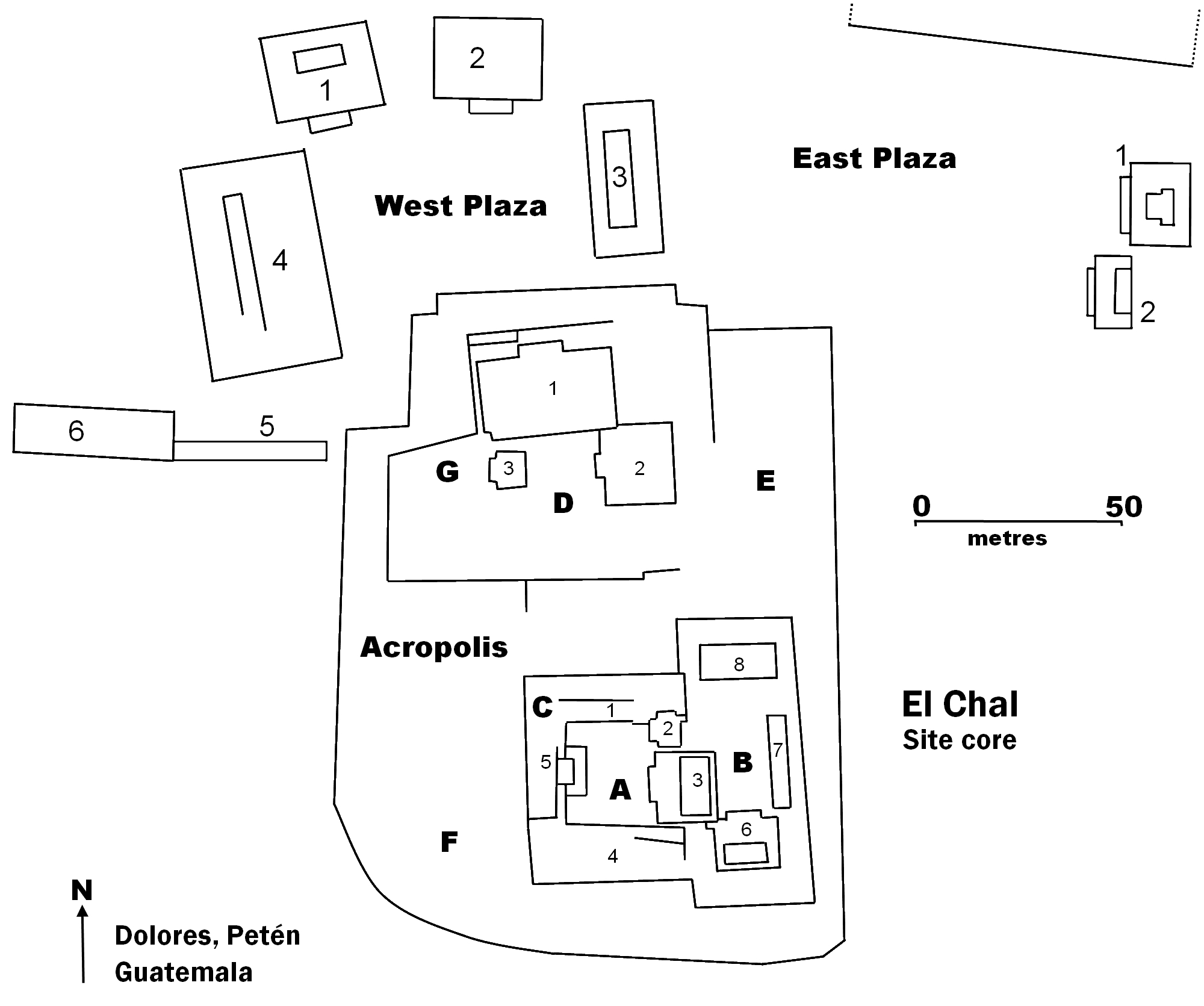 Map of the site core of the Maya archaeological site of El Chal, Dolores, Peten, Guatemala. Compiled from various reports by the Atlas Arqueológico de Guatemala, paritcularly those written by Paulino Morales and by Mara Reyes.